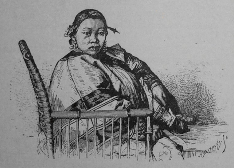 A wealthy Chinawoman from Vladivostok, 1890s